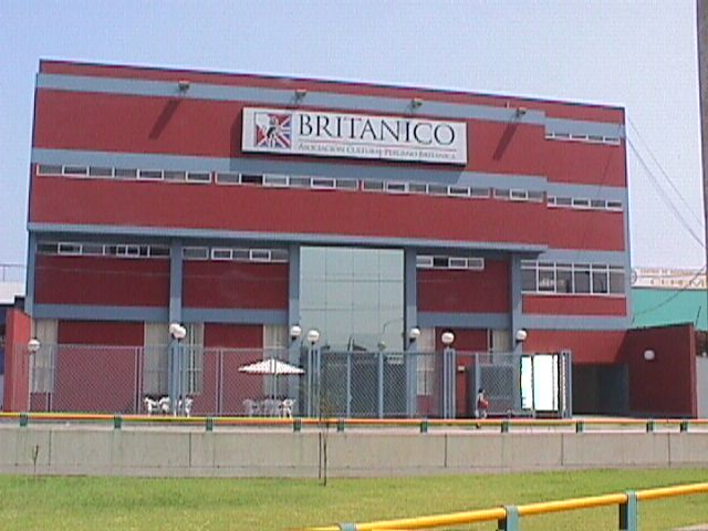 Britanico: Languages Center of Peruvian British Cultural Association in San Borja District, Lima-Peru.